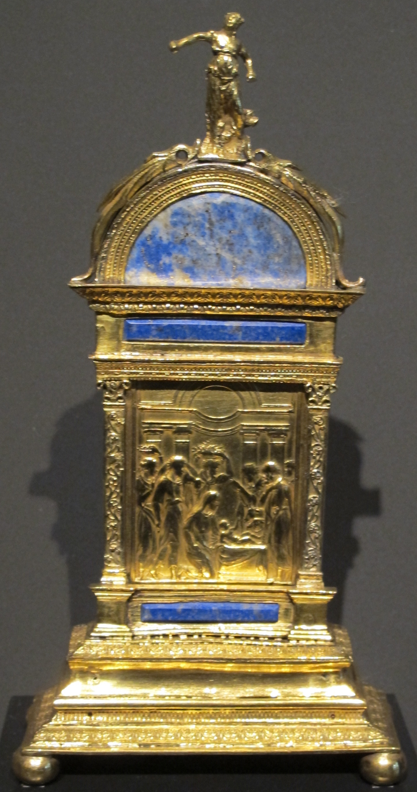 see filename; V&A's page